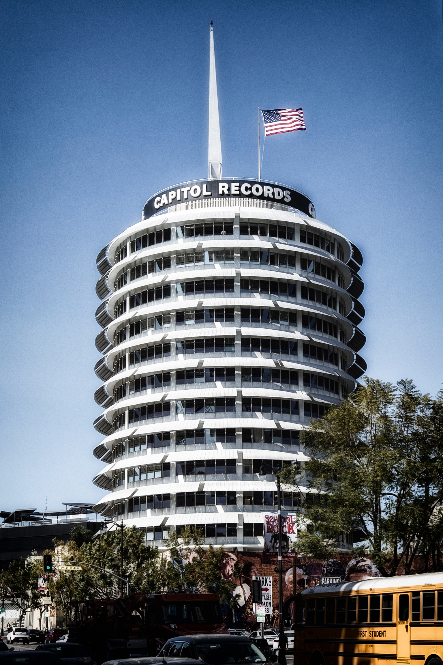 View of the famous Capital Records building